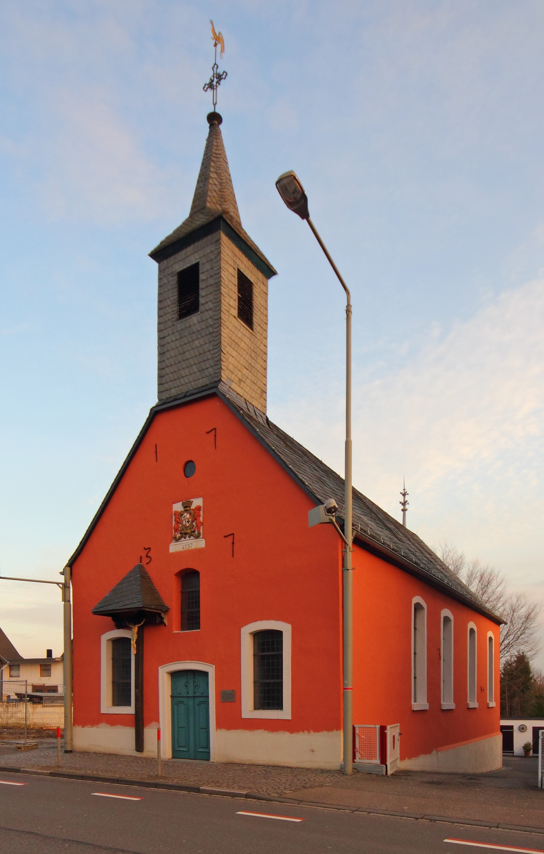 Chapel of St. John of Nepomuk in Leverkusen-Steinbüchel